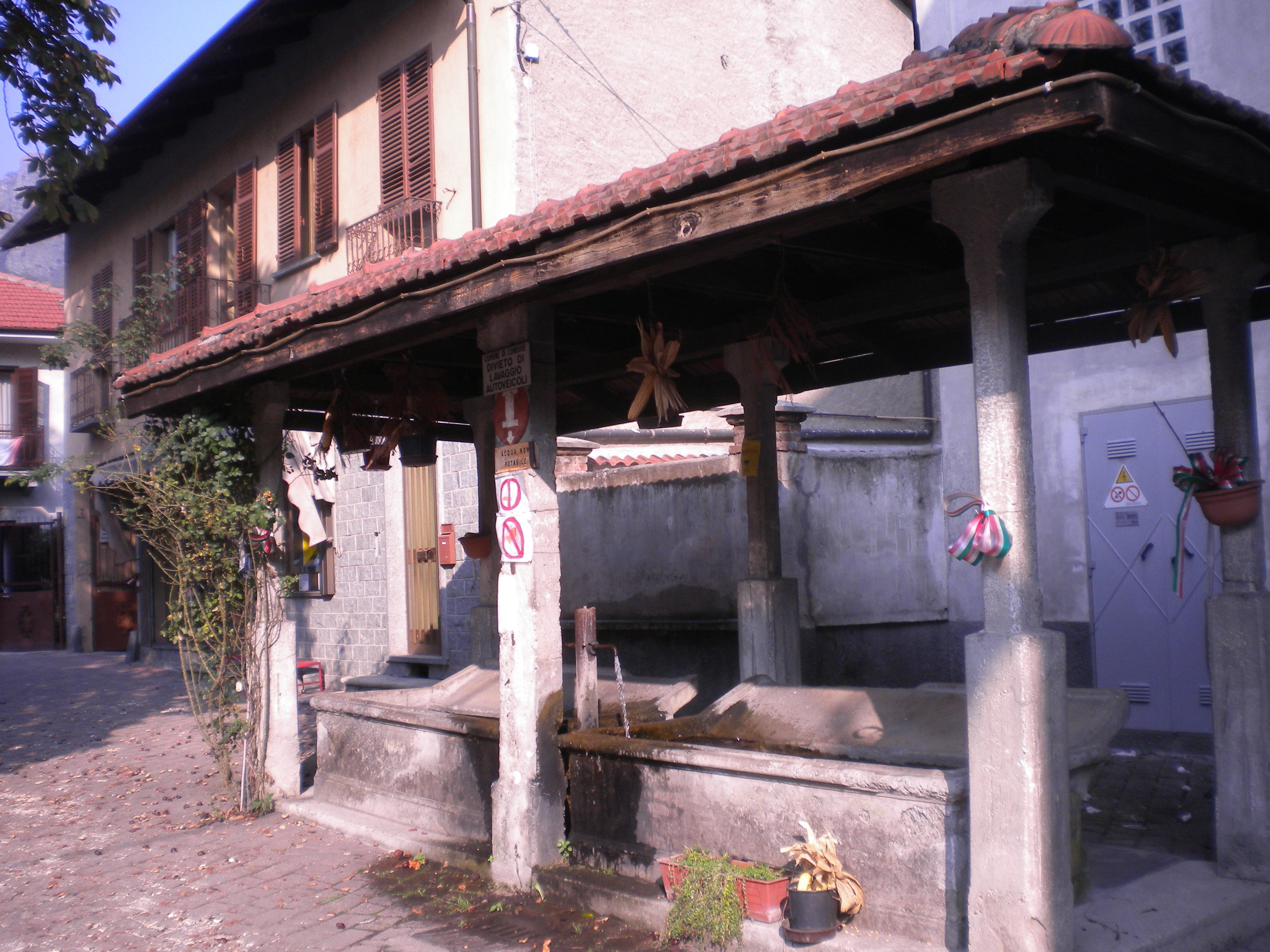 old wash house in Condove